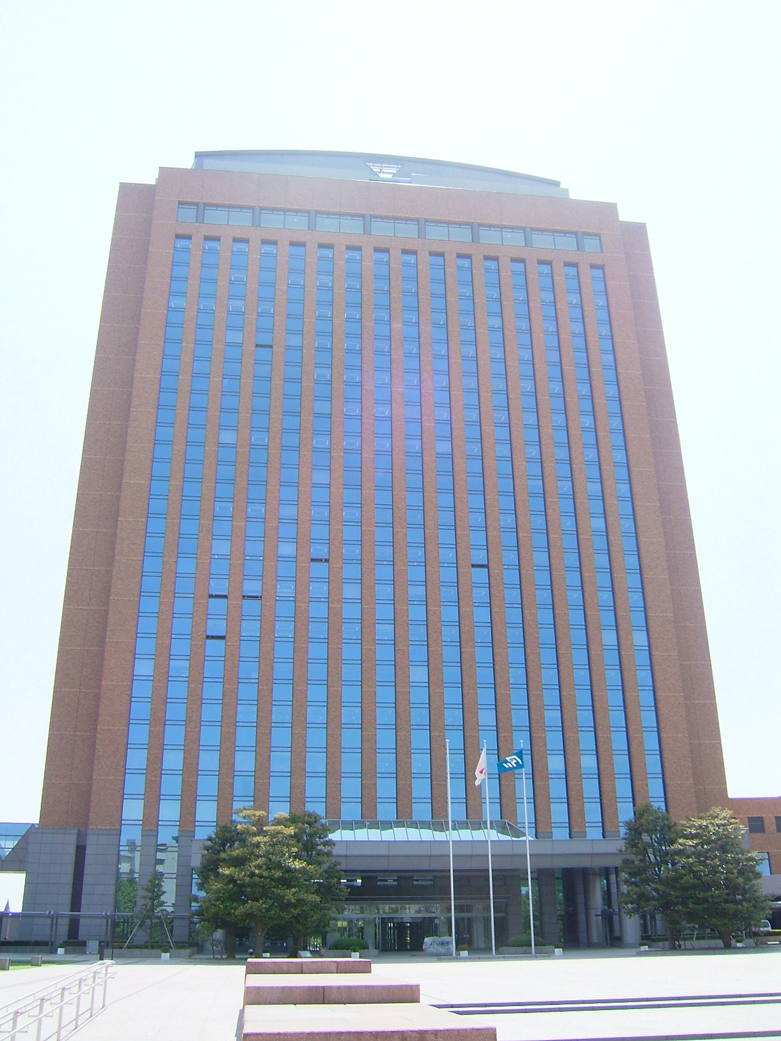 Ishikawa Prefectural Office (Kanazawa city,Ishikawa,Japan)